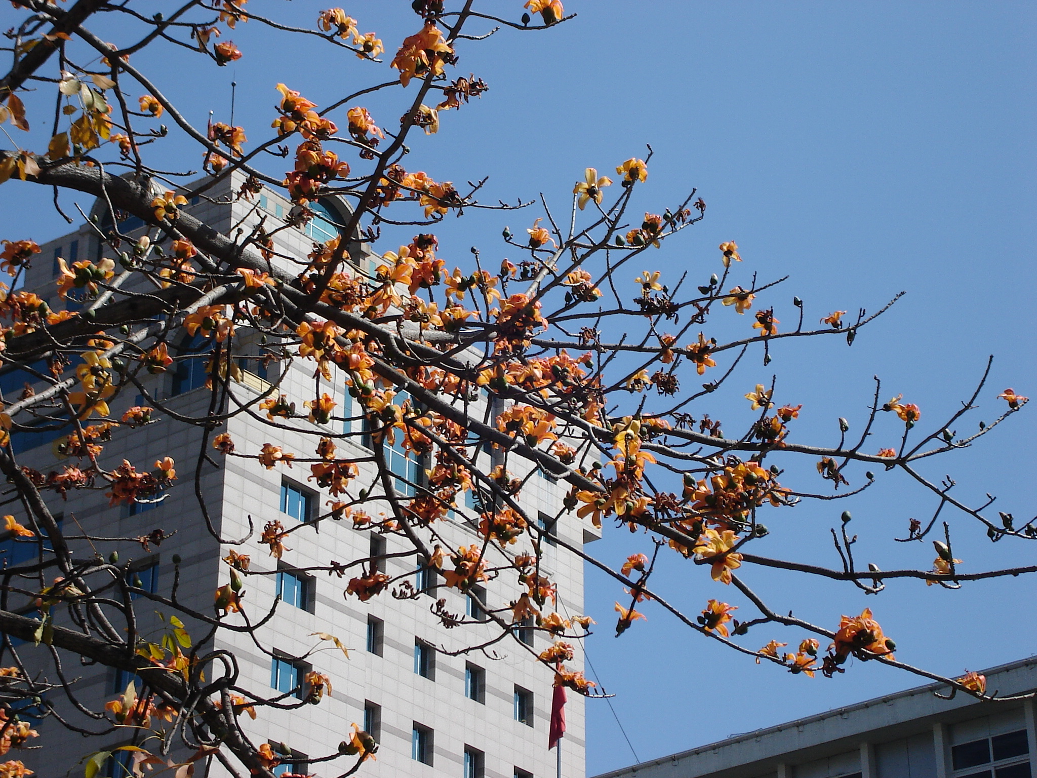 The blossoming kapok in front of the City Hall of Panzhihua